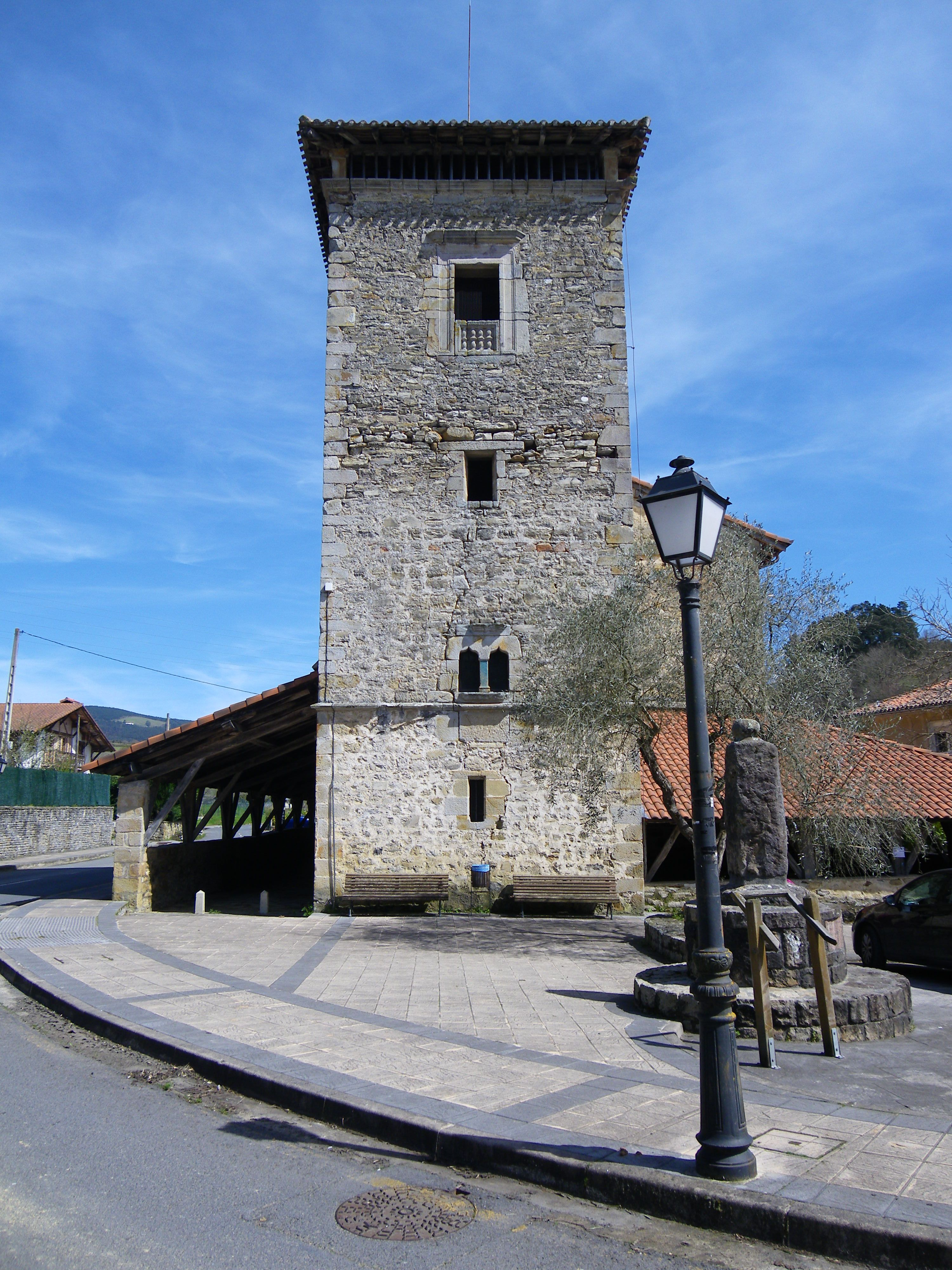 Church of Saint Salvatore, Fruiz, Biscay, Basque Country.